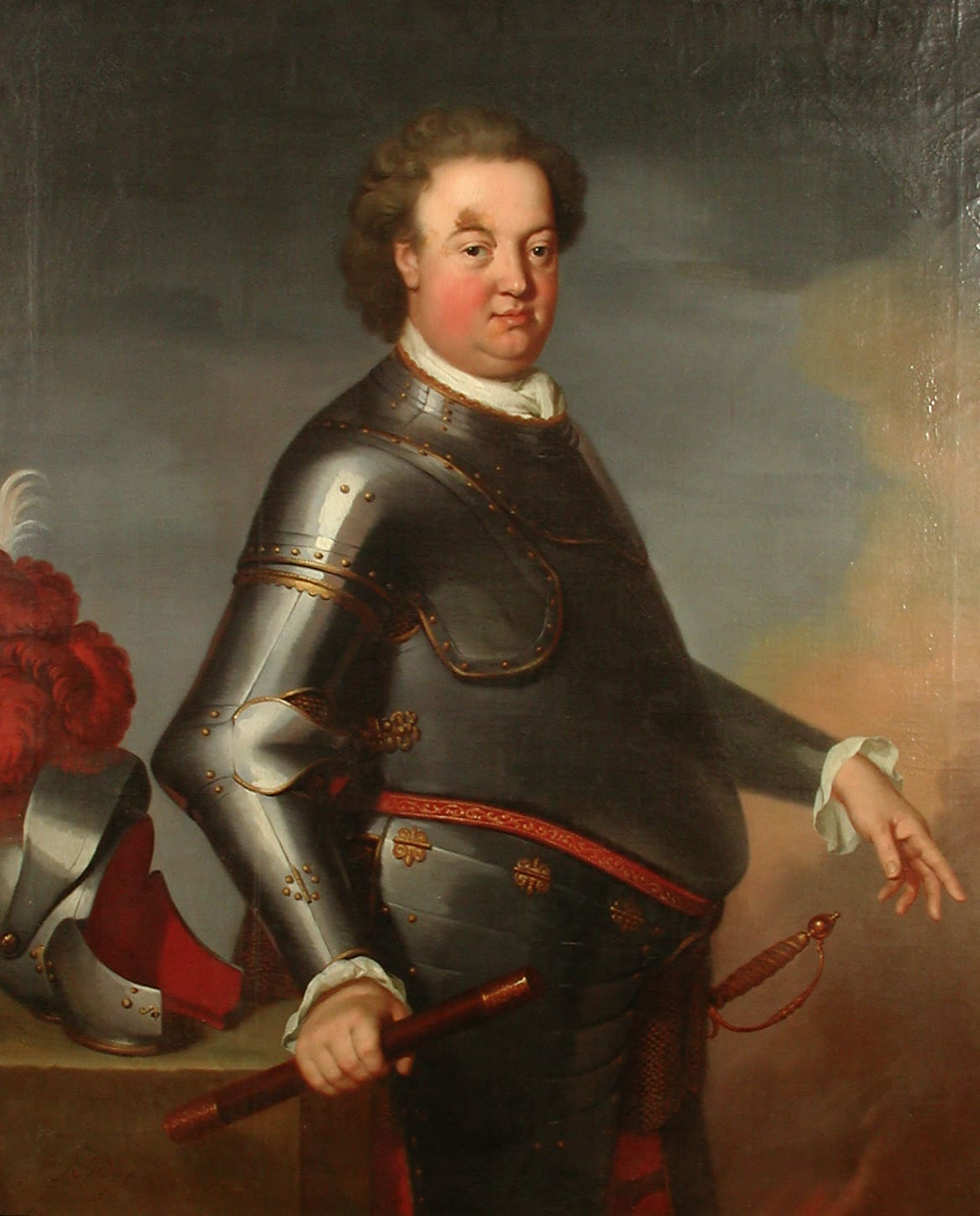 Portrait of Frederick Adolphus, Count of Lippe-Detmold (1667-1718), recolored